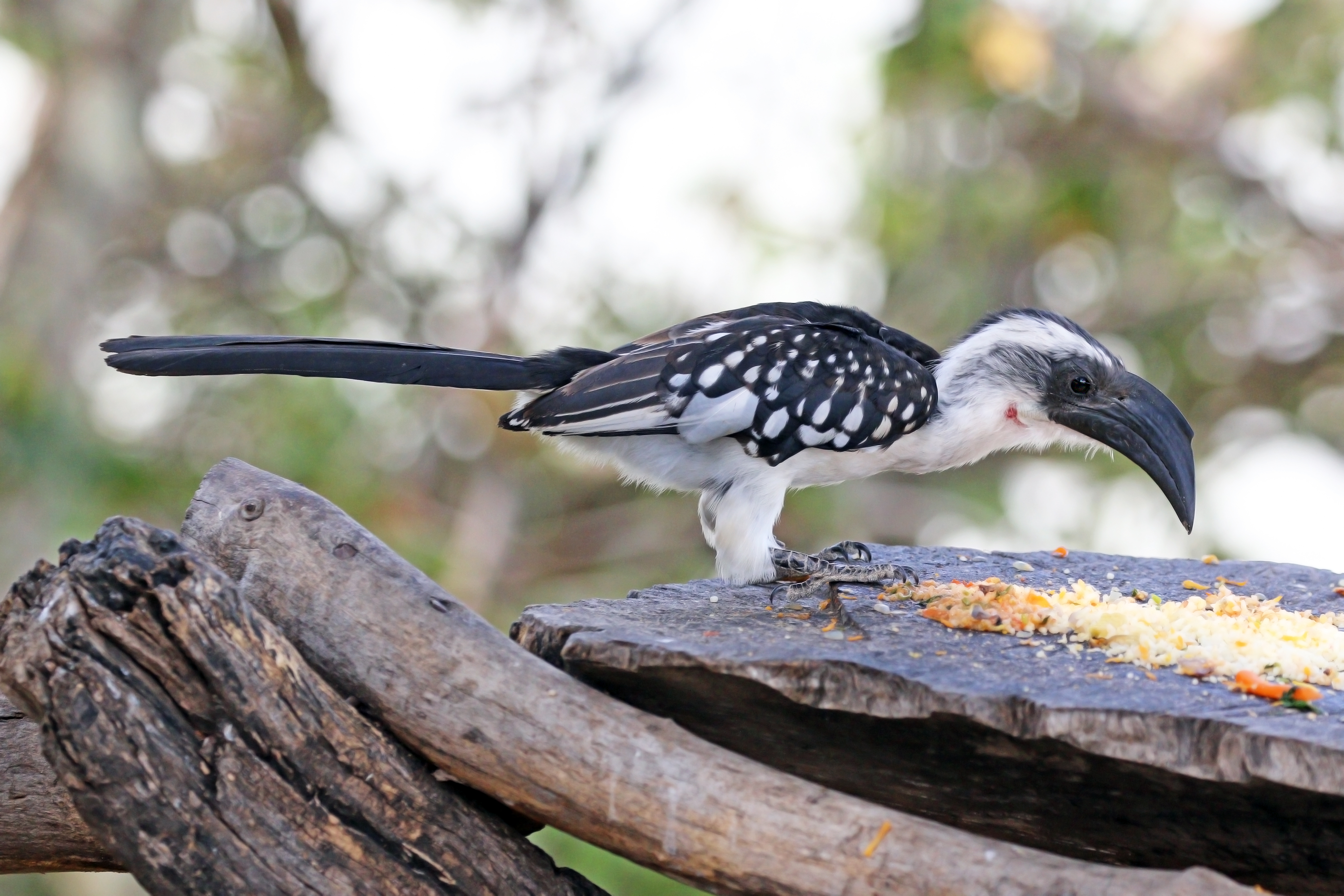 Jackson's hornbill (Tockus jacksoni) female, Lake Baringo, Kenya